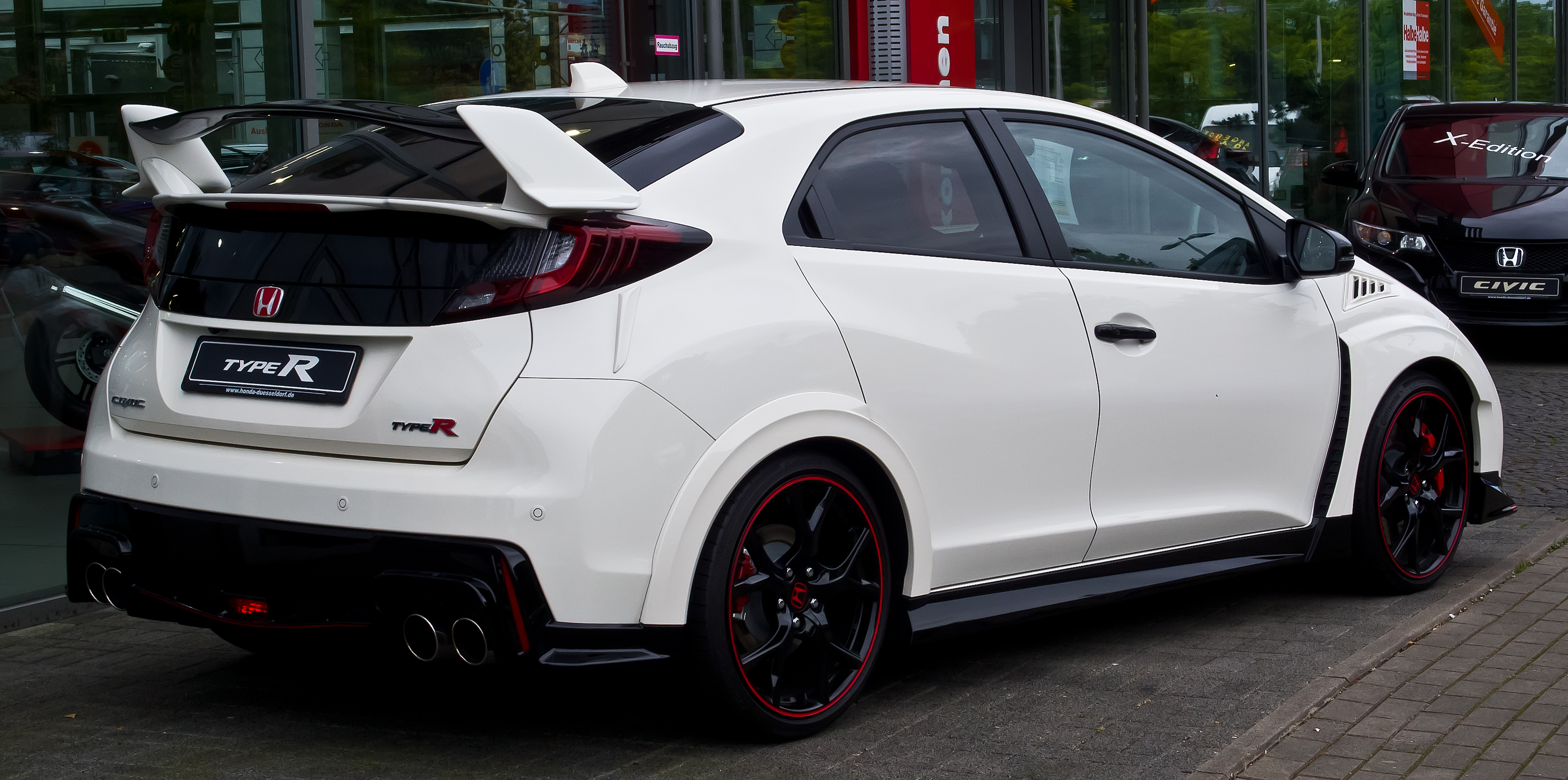 Honda Civic Type R (IX, Facelift)